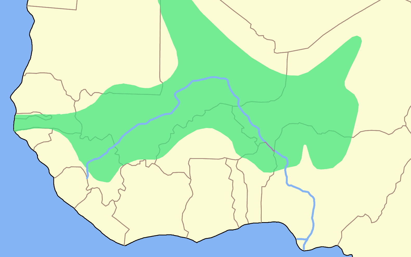 Map of the Songhai Empire made by User:Astrokey44 in Corel Painter IX